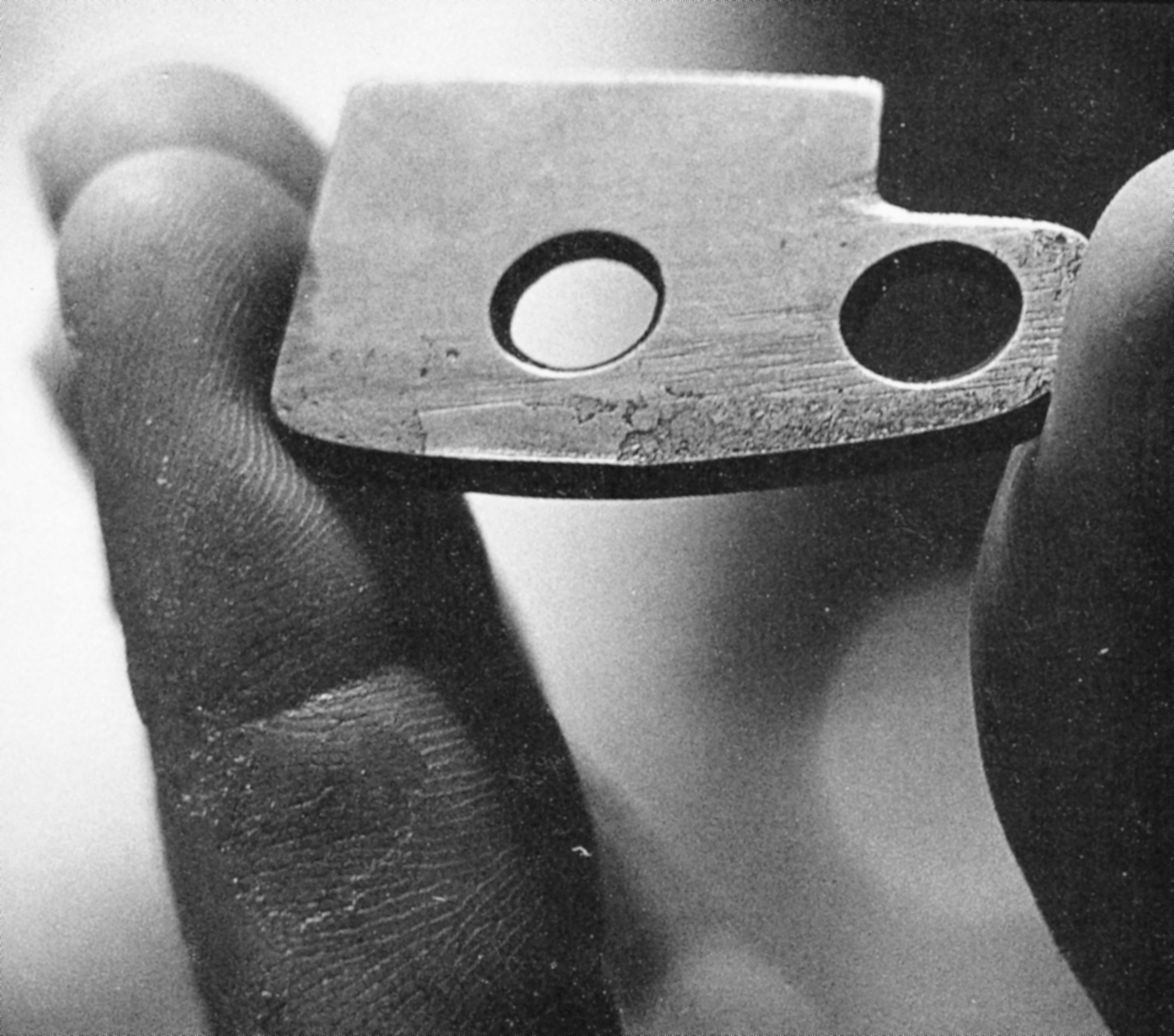 A photo of a RURP (Realized Ultimate Reality Piton), invented by rock climbers Tom Frost and Yvon Chouinard